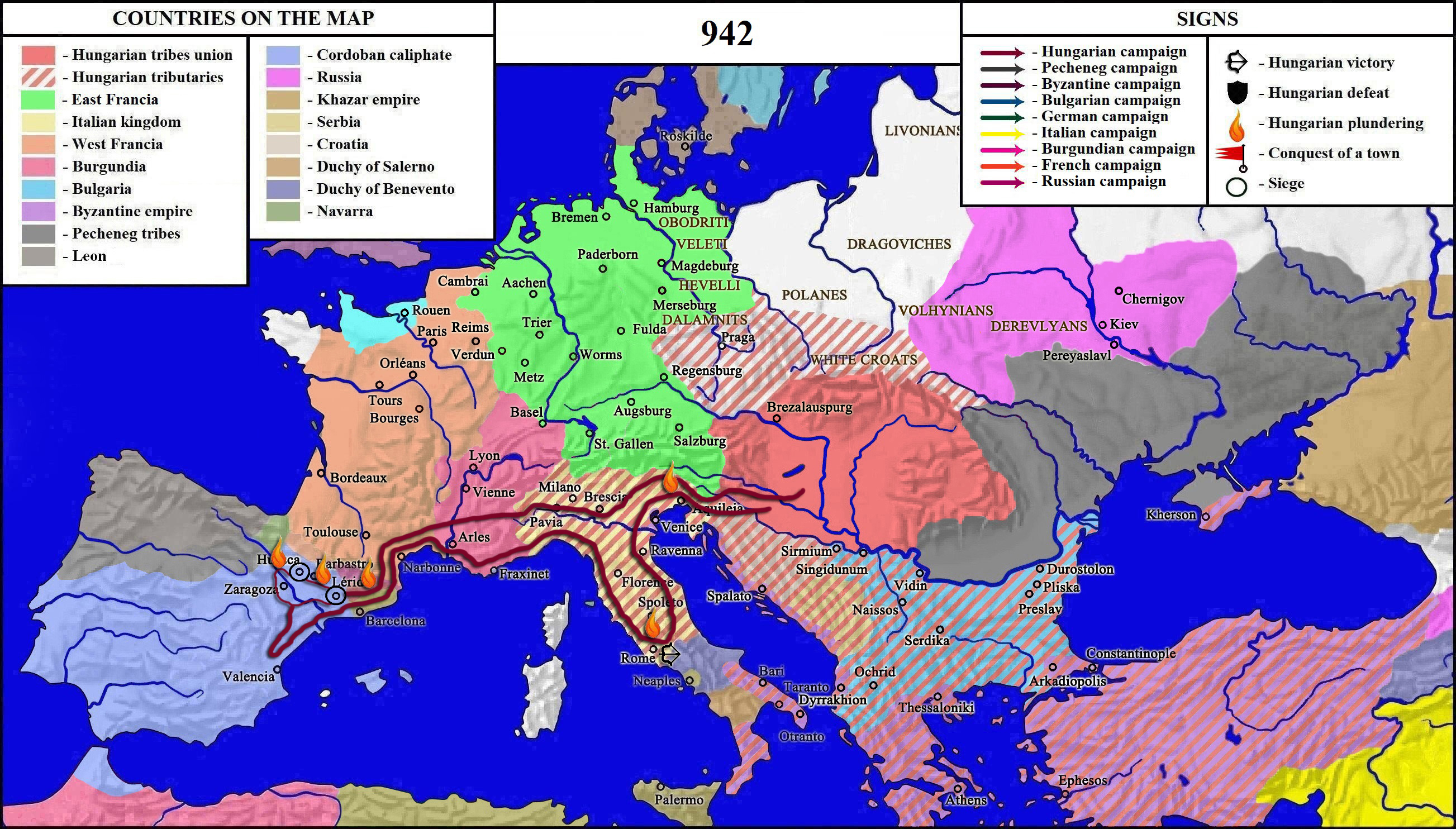 The Hungarian campaign in Italy, Burgundy, Southern France and Spain in 942, the farest place where the Hungarian campaigns have reached in the 10th century.